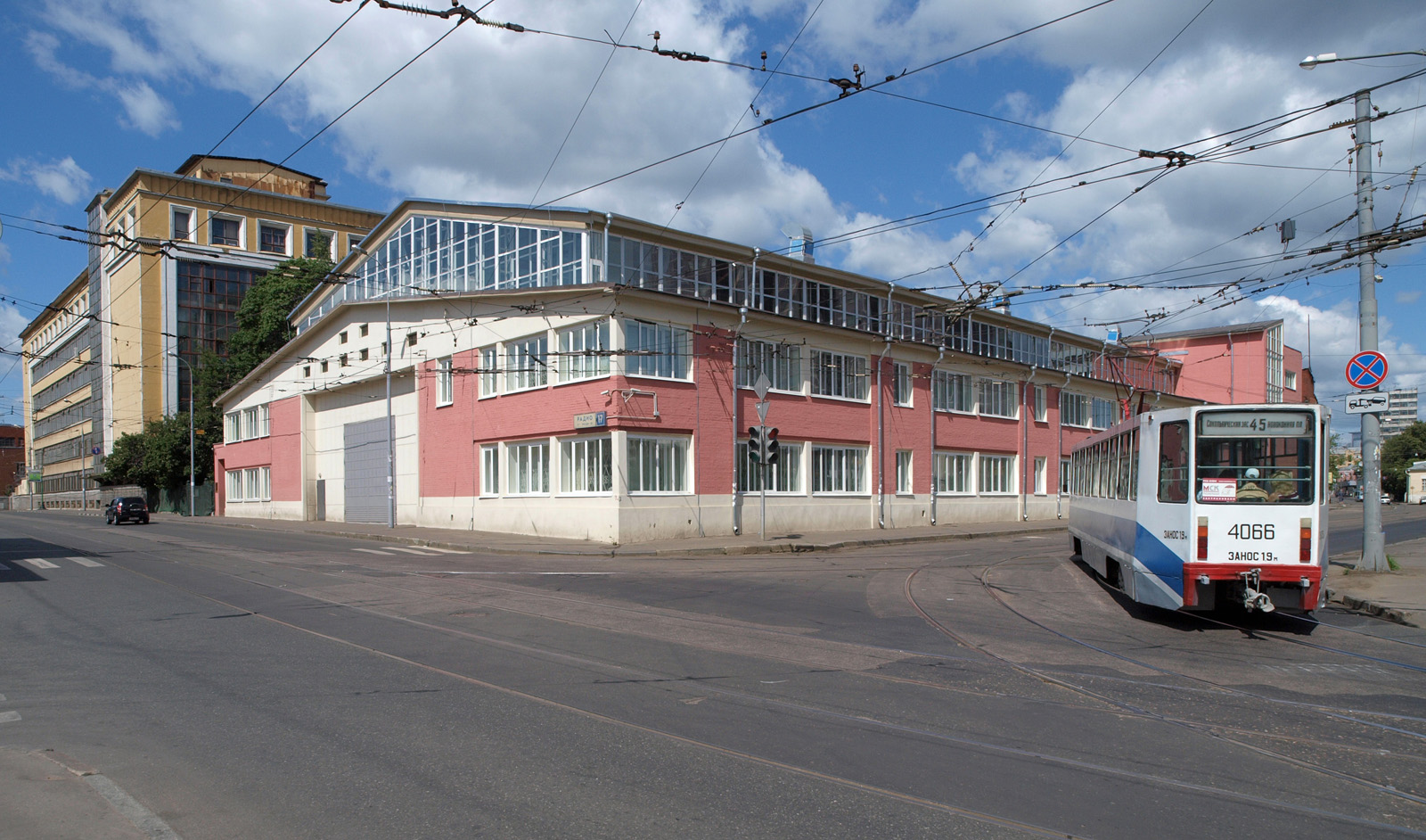 Corner of Baumanskaya and Radio Streets. Originally the TsAGI building (TsAGI itself is now based out of Moscow).